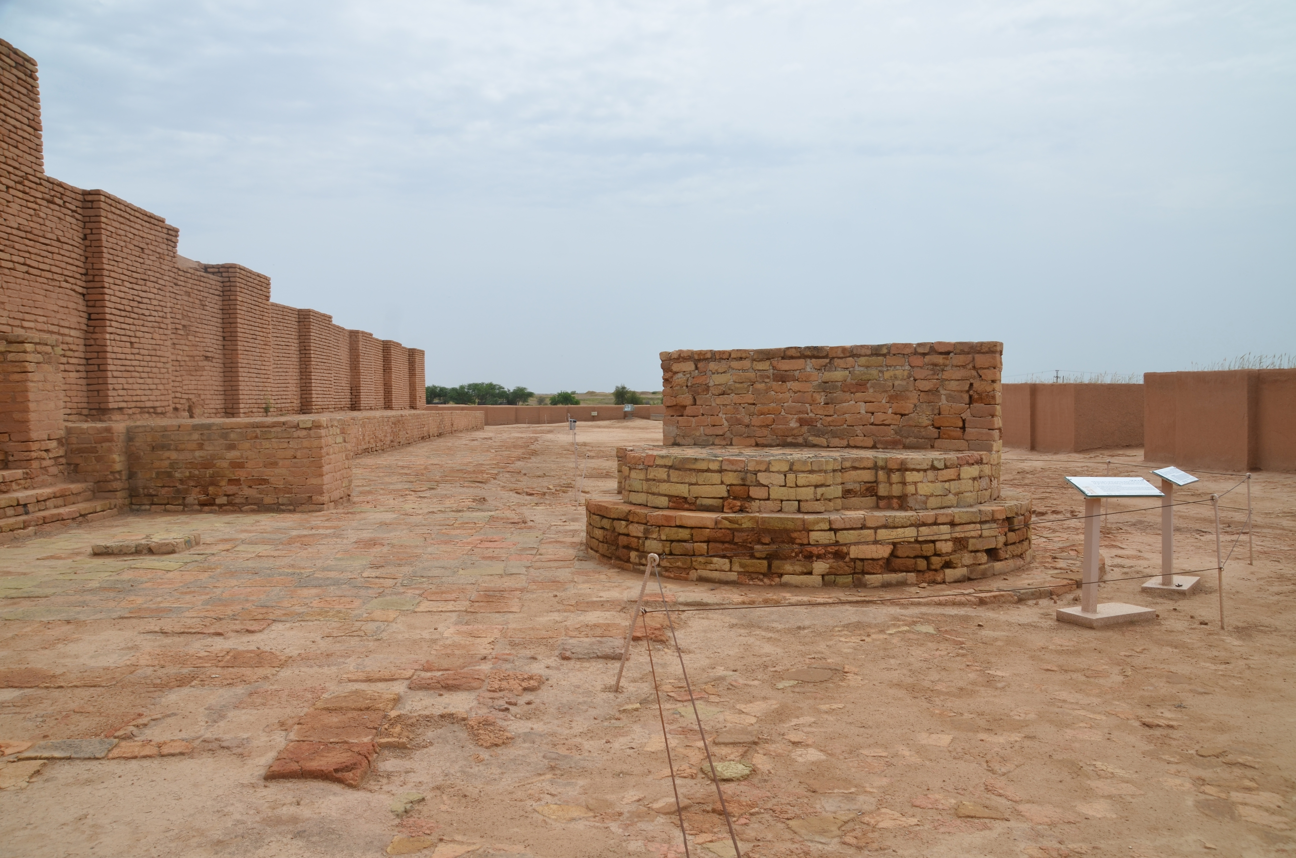 A round altar located in the southwestern side of the ziggurat which was likely used for religious festivals, Chogha Zanbil, an ancient Elamite complex founded around 1250 BC by the Elamite king Untash-Napirisha as the religious centre of Elam, Iran